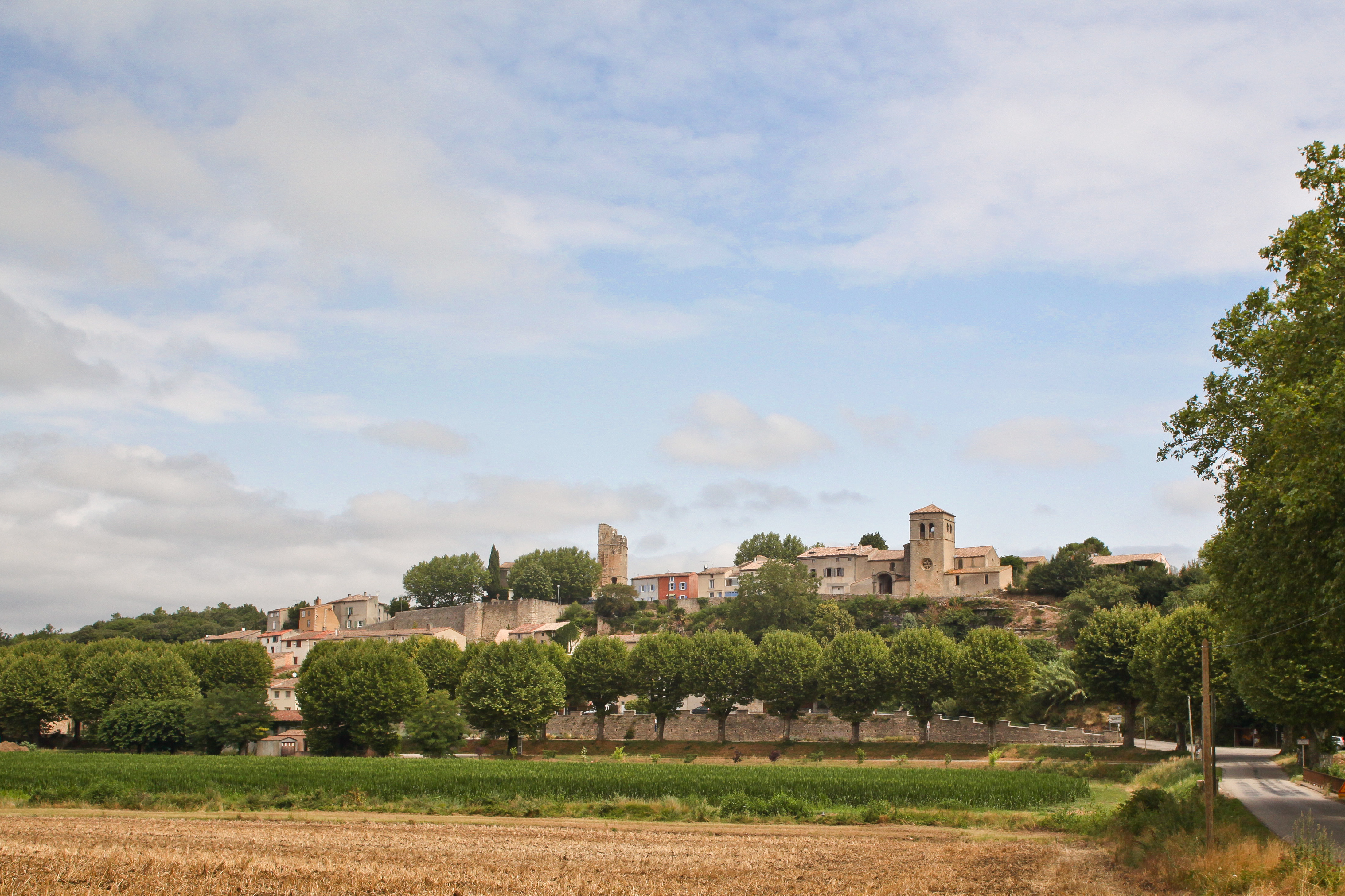 Saint-Martin-le-Vieil villageOccitan : Lo vilatge de Sant Martin le Vièlh